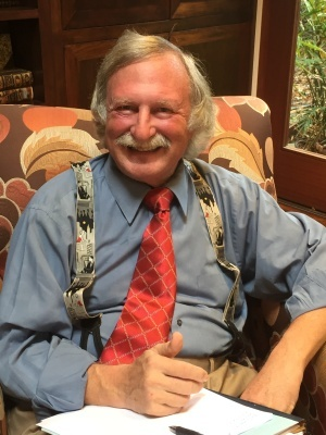 Dr. Jacob Teitelbaum at his office in Kailua-Kona, Hawaii.